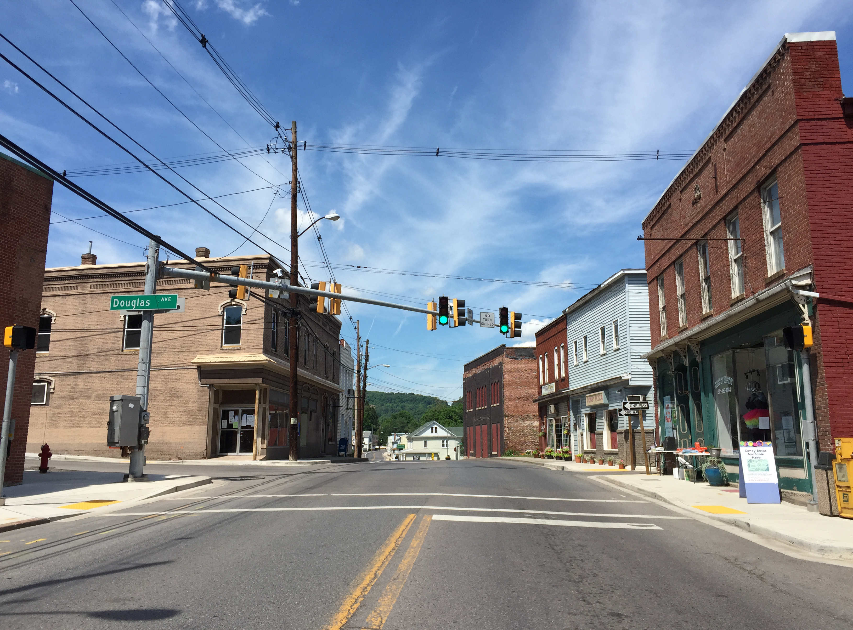 View north along Maryland State Route 36 (Main Street) at Douglas Avenue in Lonaconing, Allegany County, Maryland